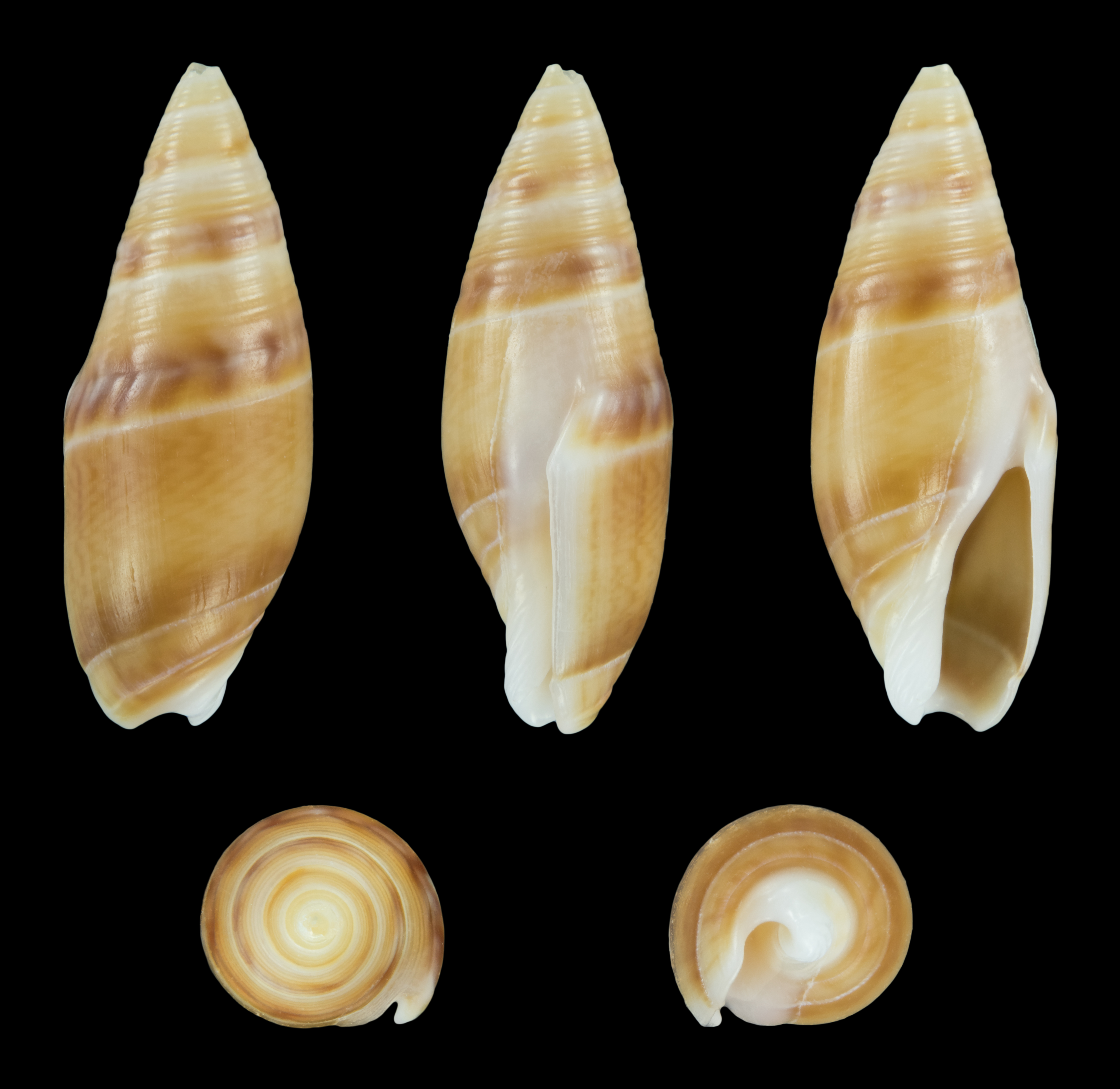 Amalda edithae (Pritchard & Gatliff, 1899), dark form; length 1.3 cm; Originating from Port Stanvac, South Australia, South Australia; Shell of own collection, therefore not geocoded.